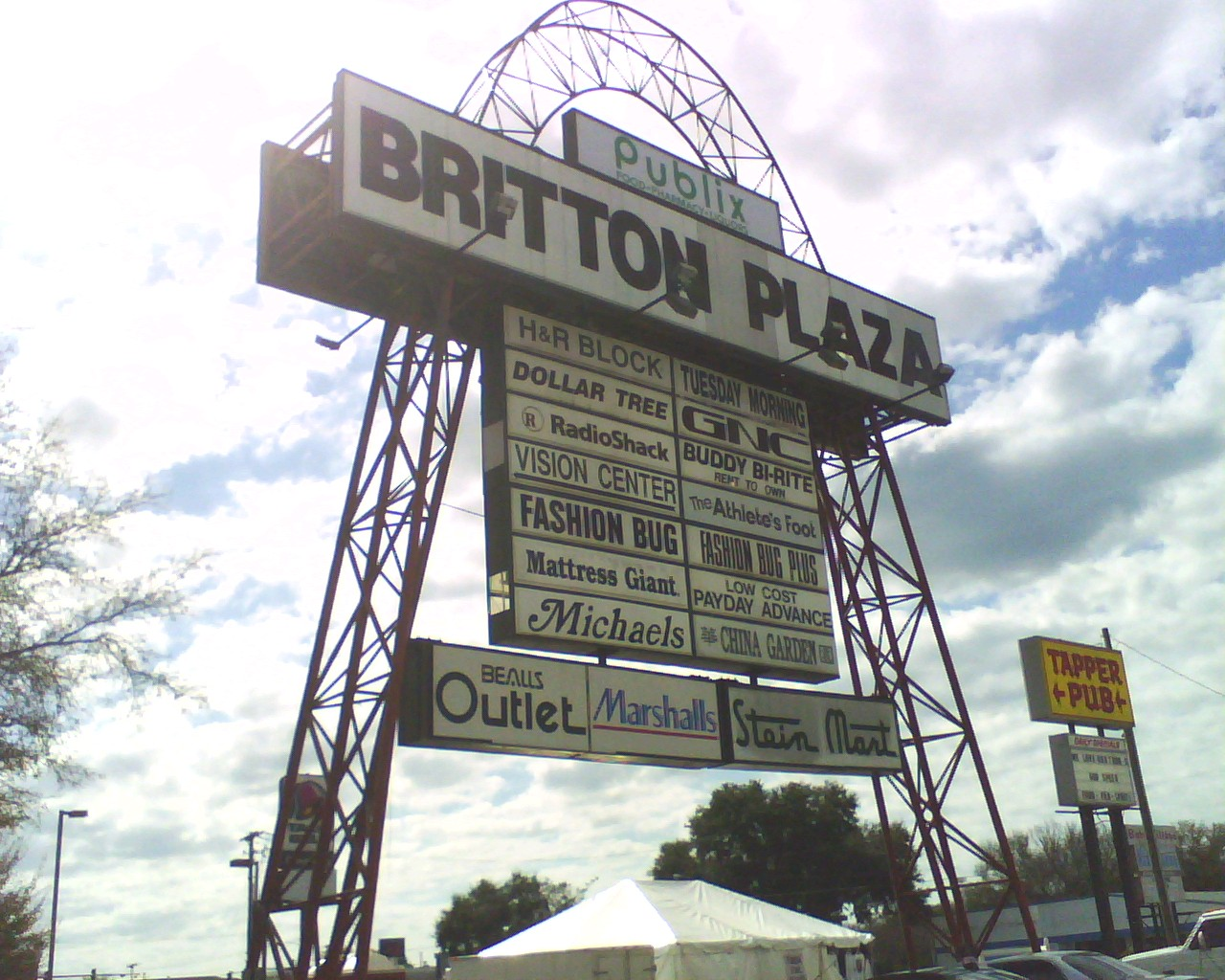 Taken by W.Slupecki